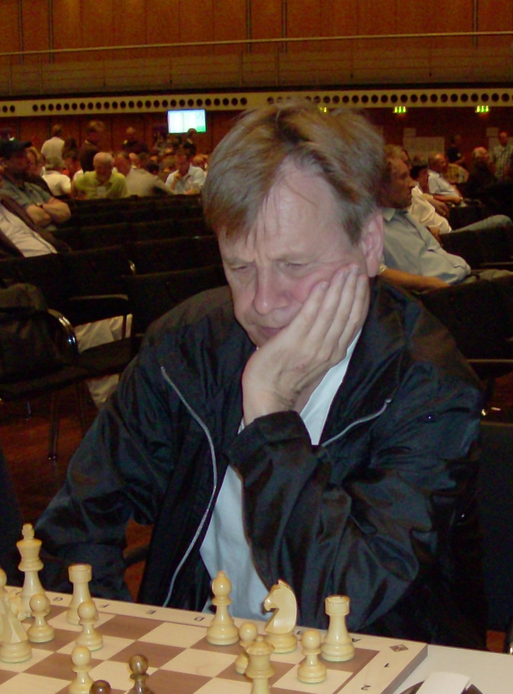 Ulf Andersson, chess grandmaster from Sweden